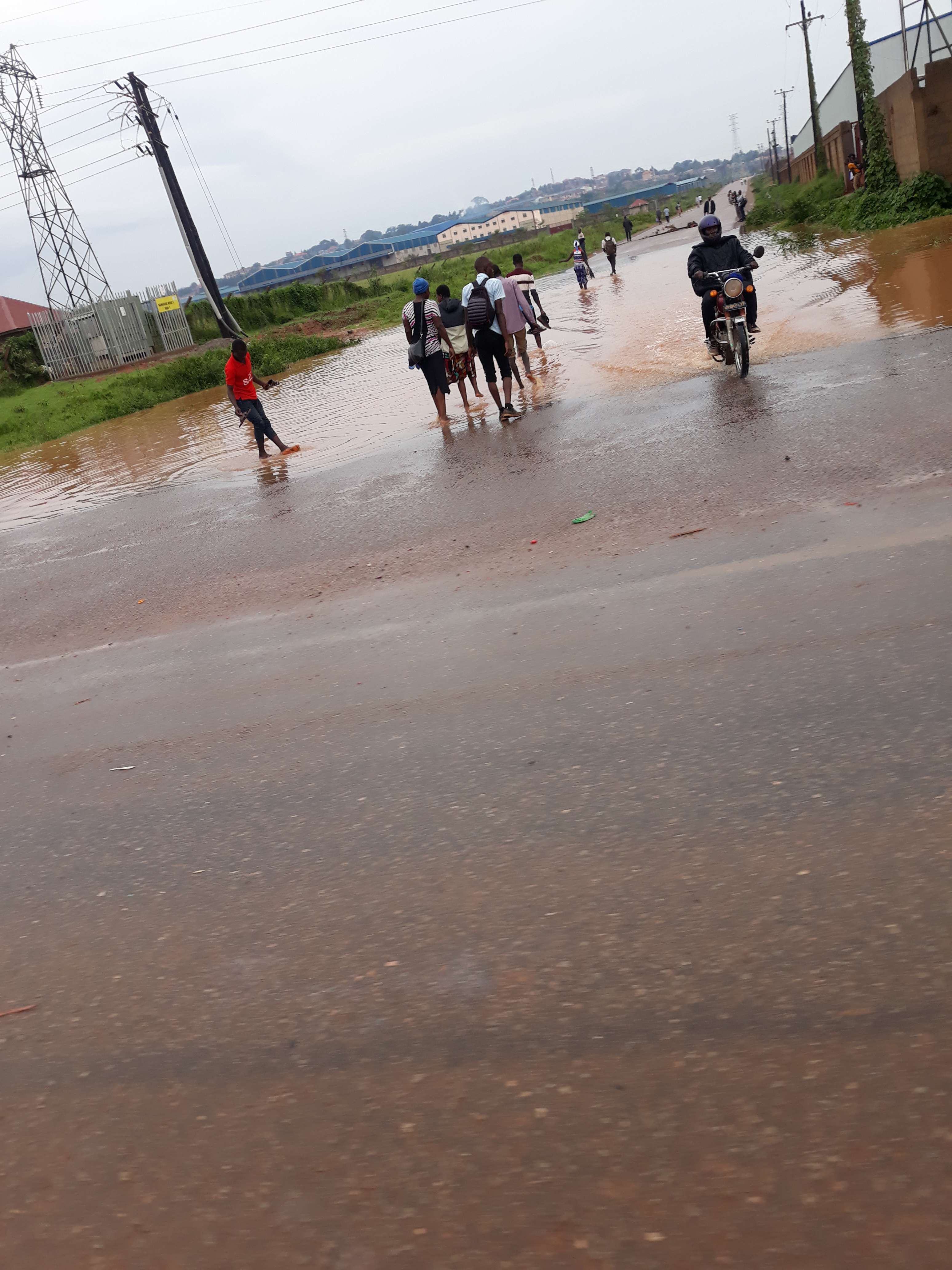 Pedestrians and motorists trying to cross a flooded section of Kampala Jinja highway at Namanve Industrial Park This is an image with the theme "Africa on the Move or Transport" from: Uganda